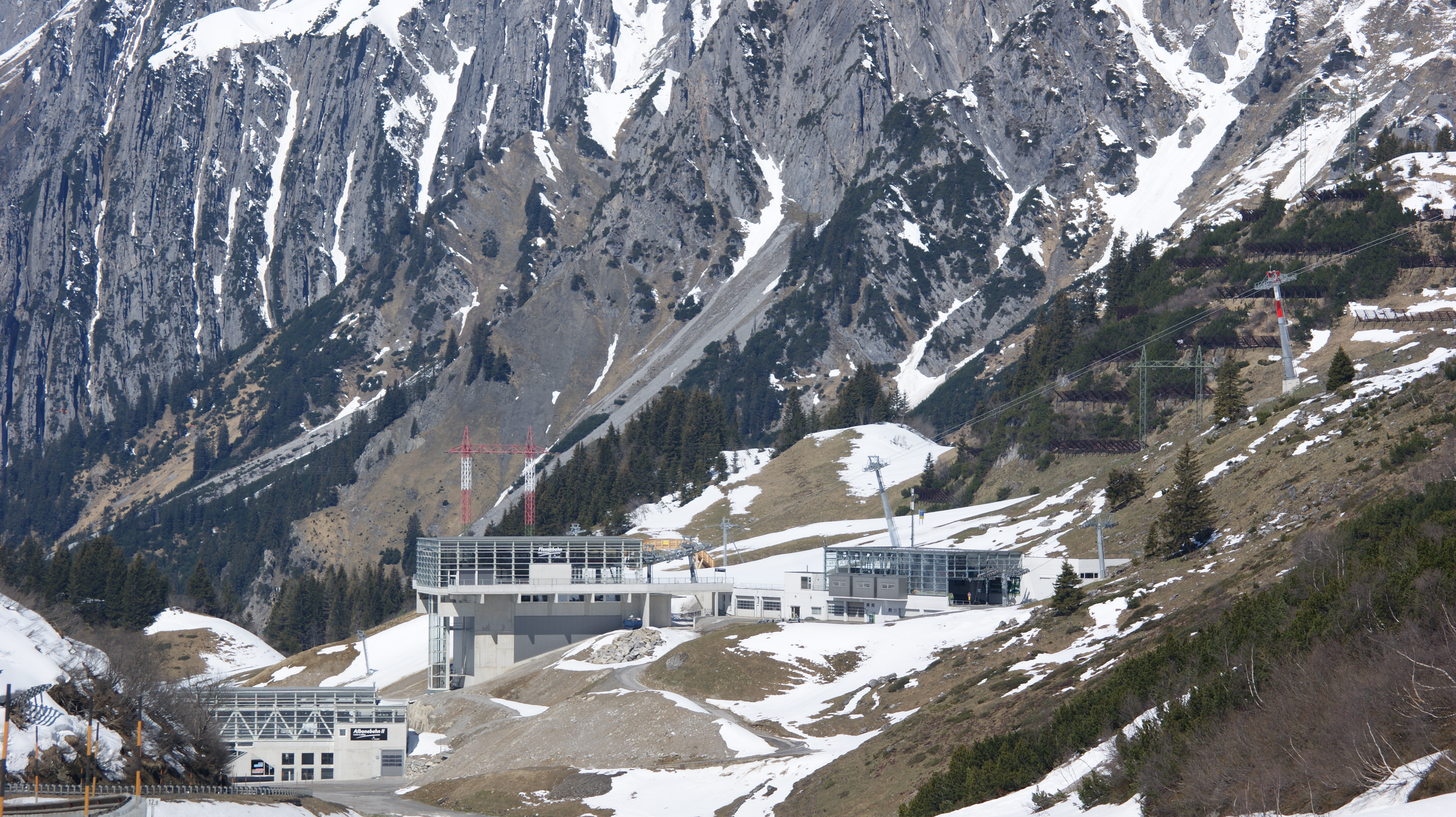 Albonabahn II, Flexenbahn and Valfagehrbahn (Alp Rauz) in the spring of 2017, seen from the Arlbergpassstraße.